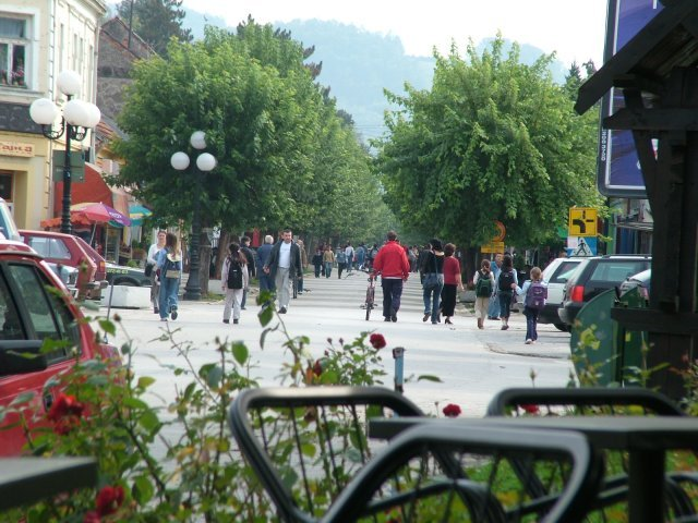 Arilje